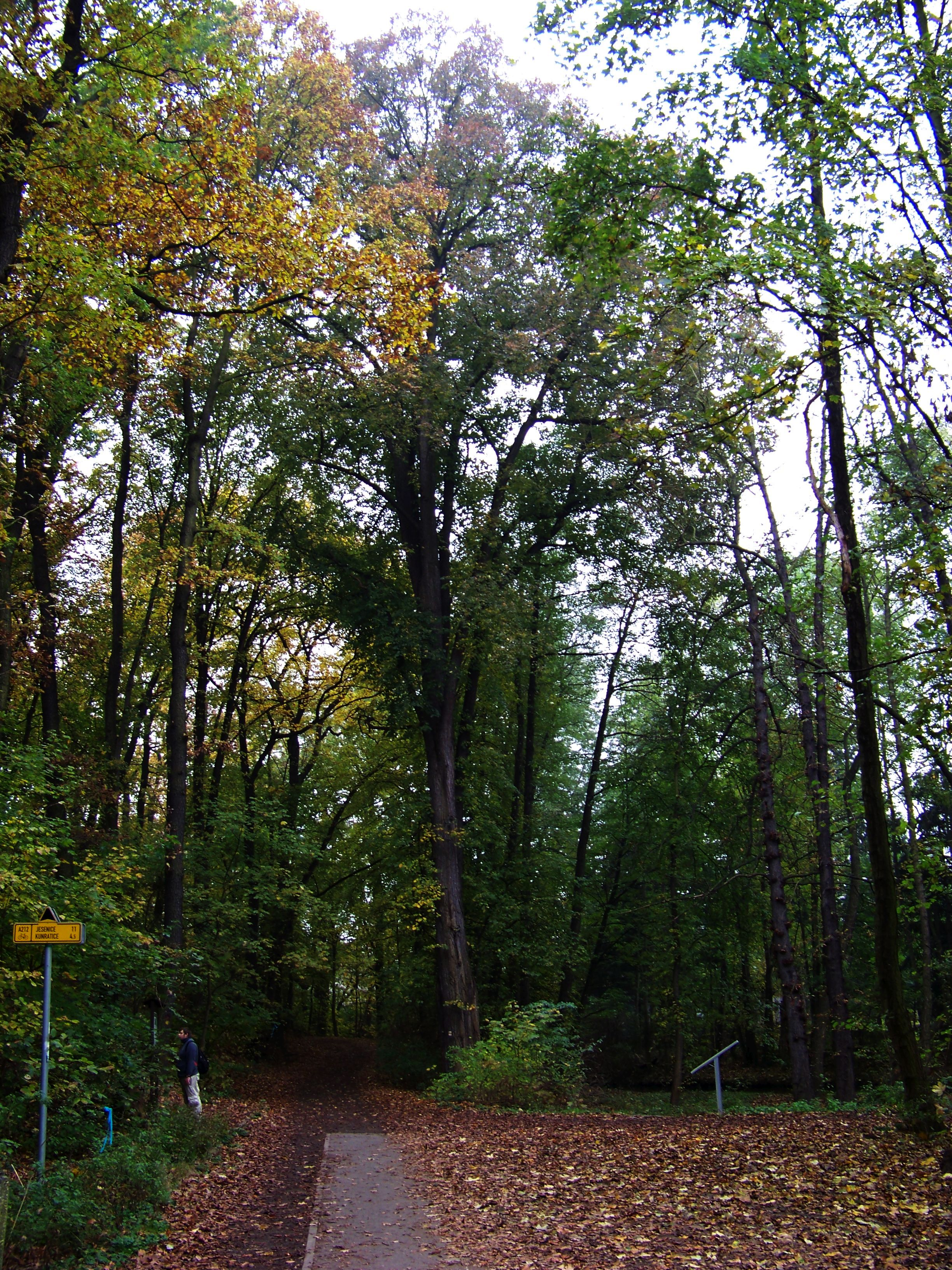 Prague-Krč and Michle, Czech Republic. Michle Forest, memorable ulmus laevis near Labuť pond.